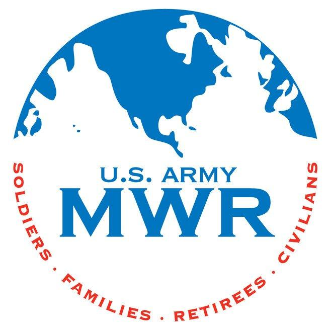 New MWR Logo